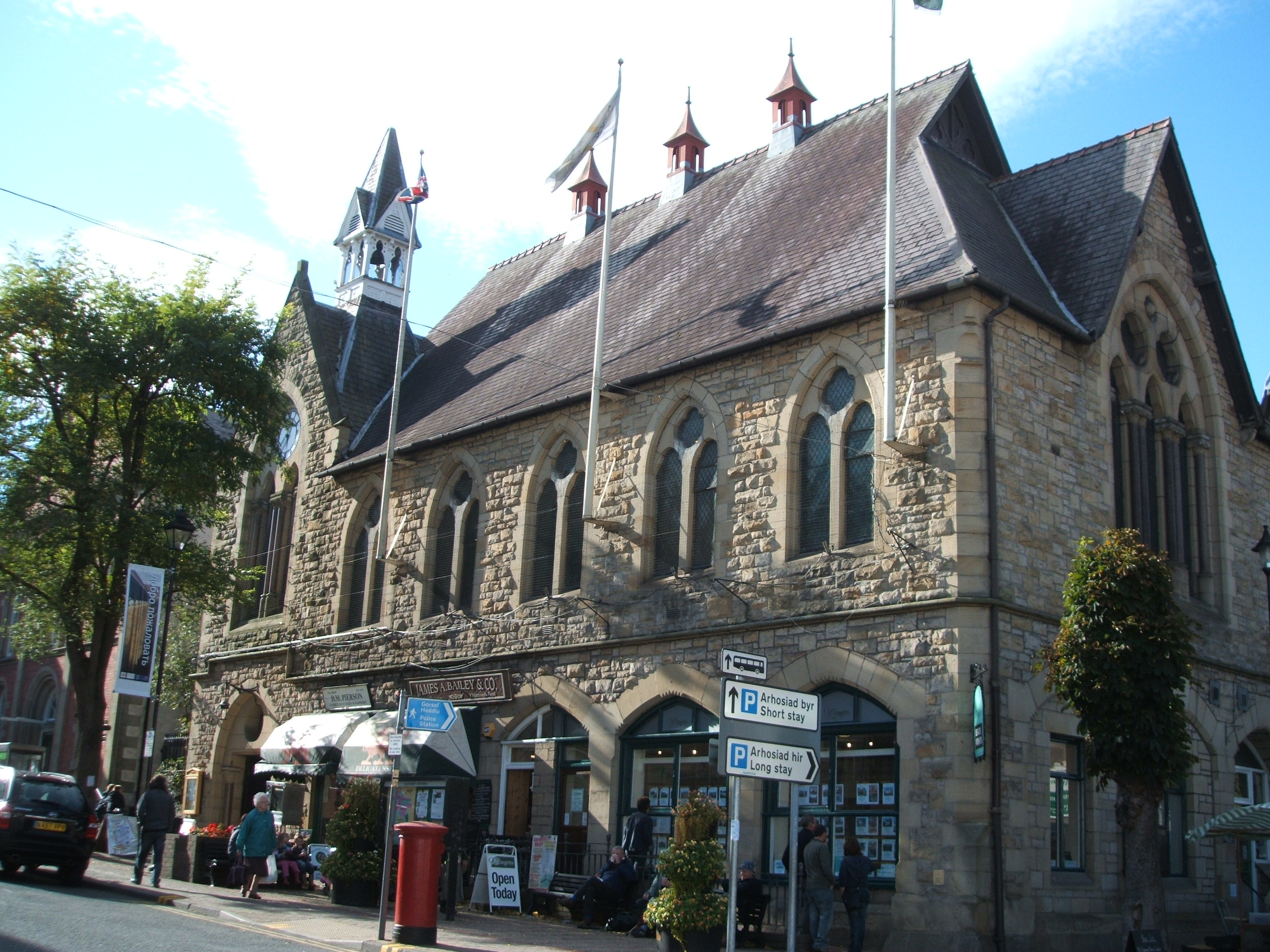 Town Hall, Llangollen